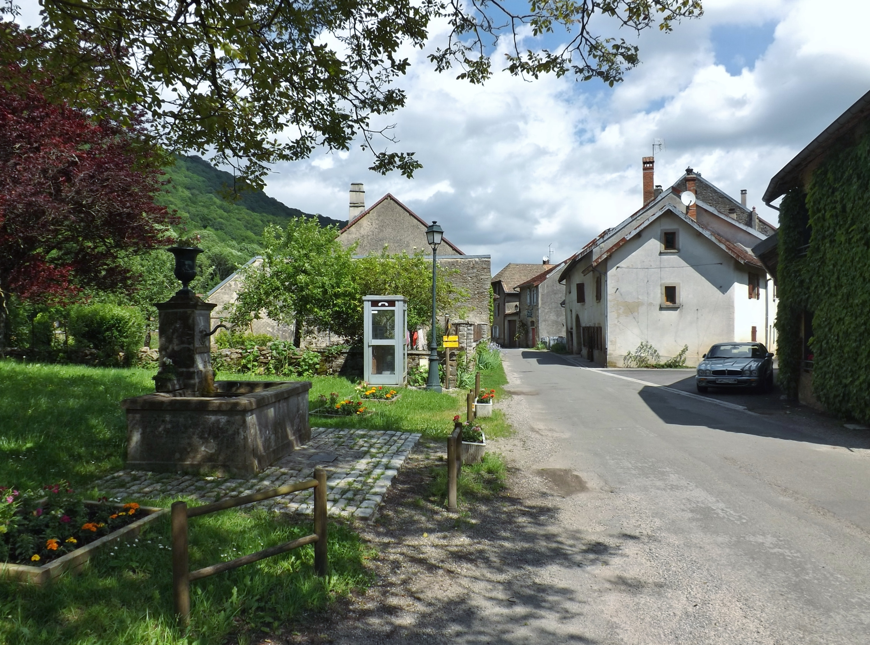 Sight of the French village of Les Planches-près-Arbois near Arbois in Jura.